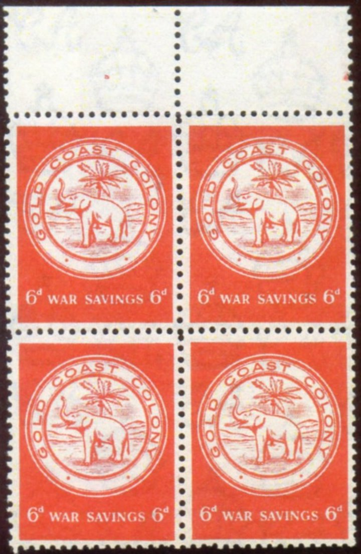 Gold Coast 6d 1943 war savings stamps multiple script CA watermark. Examples of this stamp plus a 1d in turquoise-blue are believed to exist in the Crown Agents archive. Source: Templar Bar Auctions No. 81, 11 September 2013, p. 16. Bridger & Kay, Bristol.